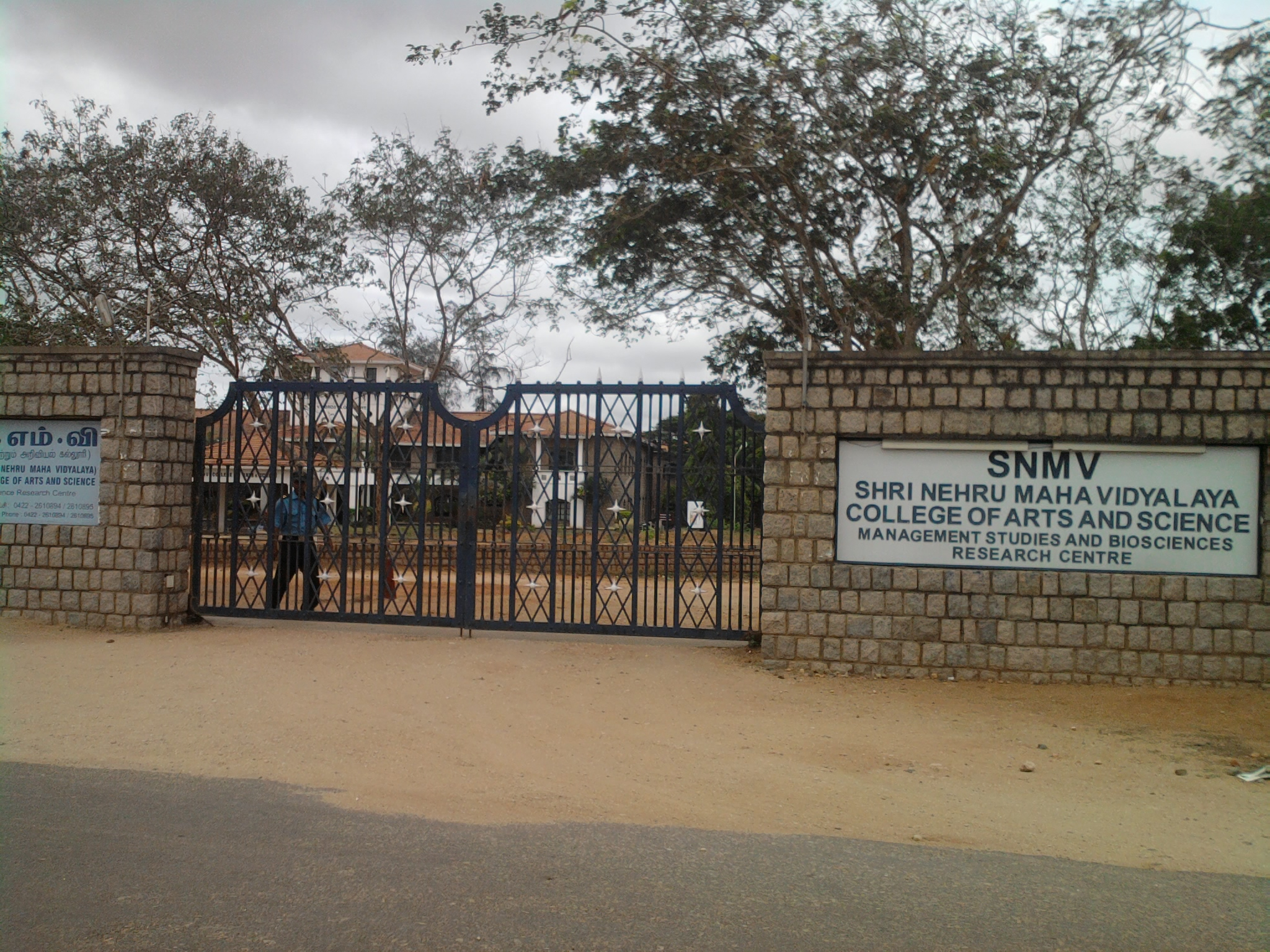 Entrance of Shri Nehru Maha Vidyalaya college in Coimbatore.